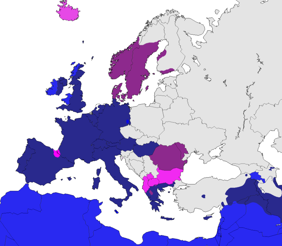 Articles in various European languages.